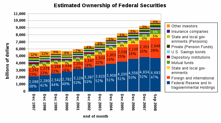 Estimated ownership of all US treasury securities (national debt) since 1997. The data was obtained from the US treasury at: Choose the "Ownership of Federal Securities" document on that page to view the data. See TABLE OFS-2.—Estimated Ownership of U.S. Treasury Securities. The link to the document used for this image